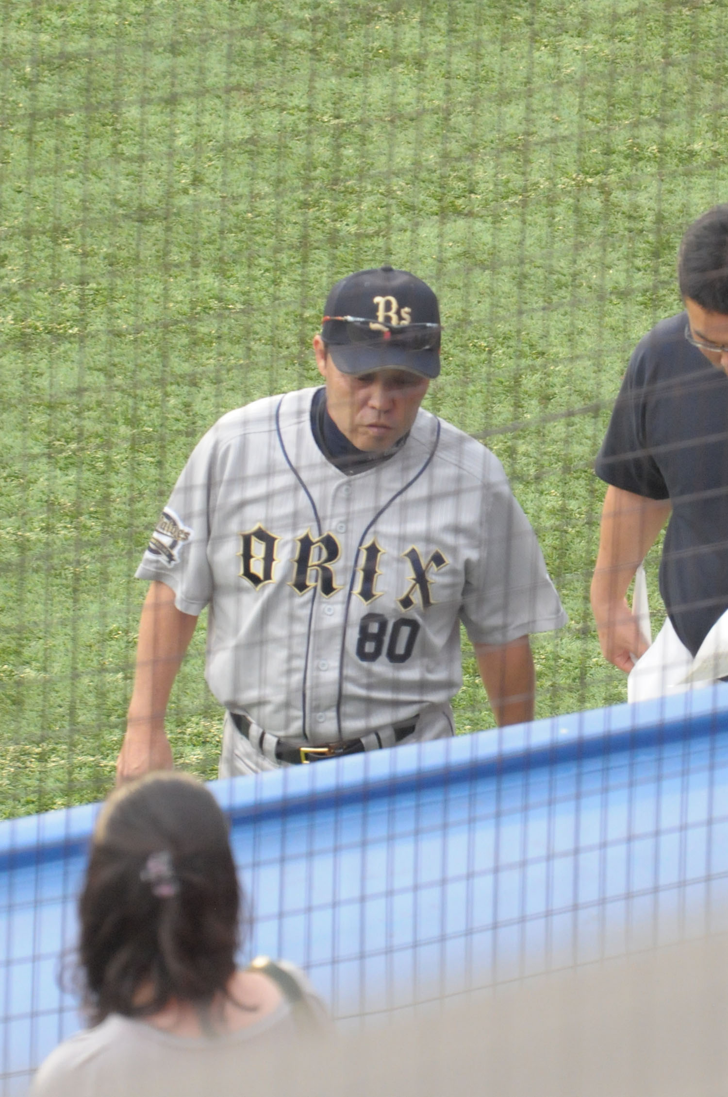 Akinobu Okada, manager of the Orix Buffaloes, at Chiba Marine Stadium.